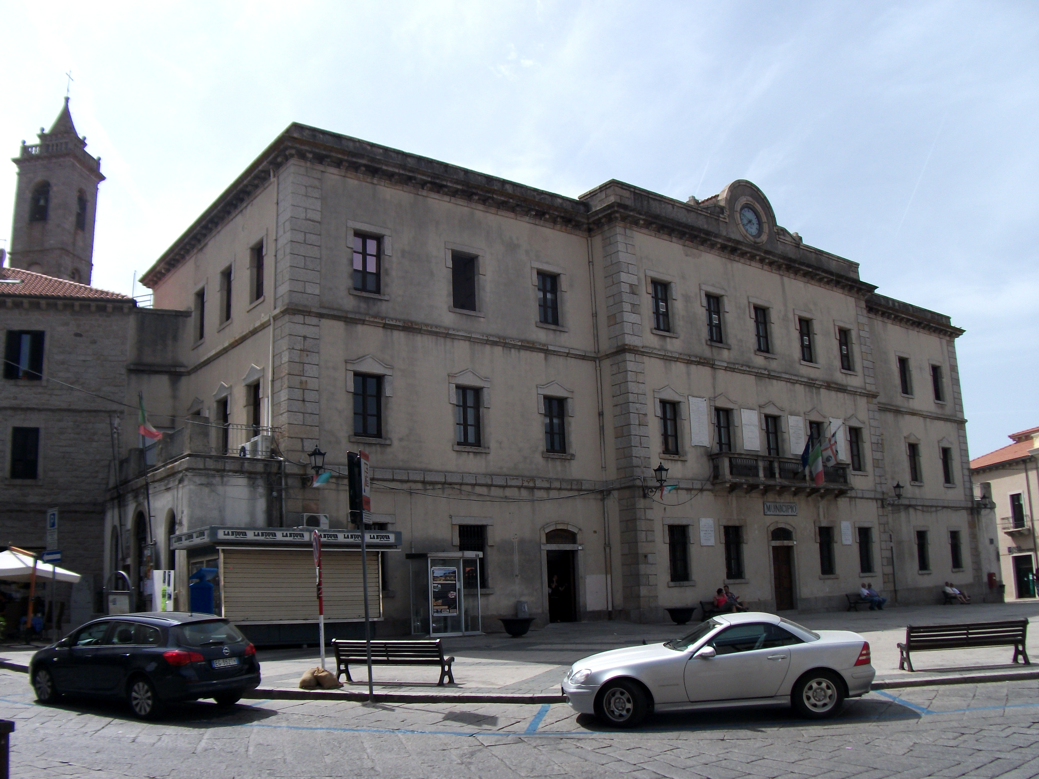 Tempio Pausania, City Hall